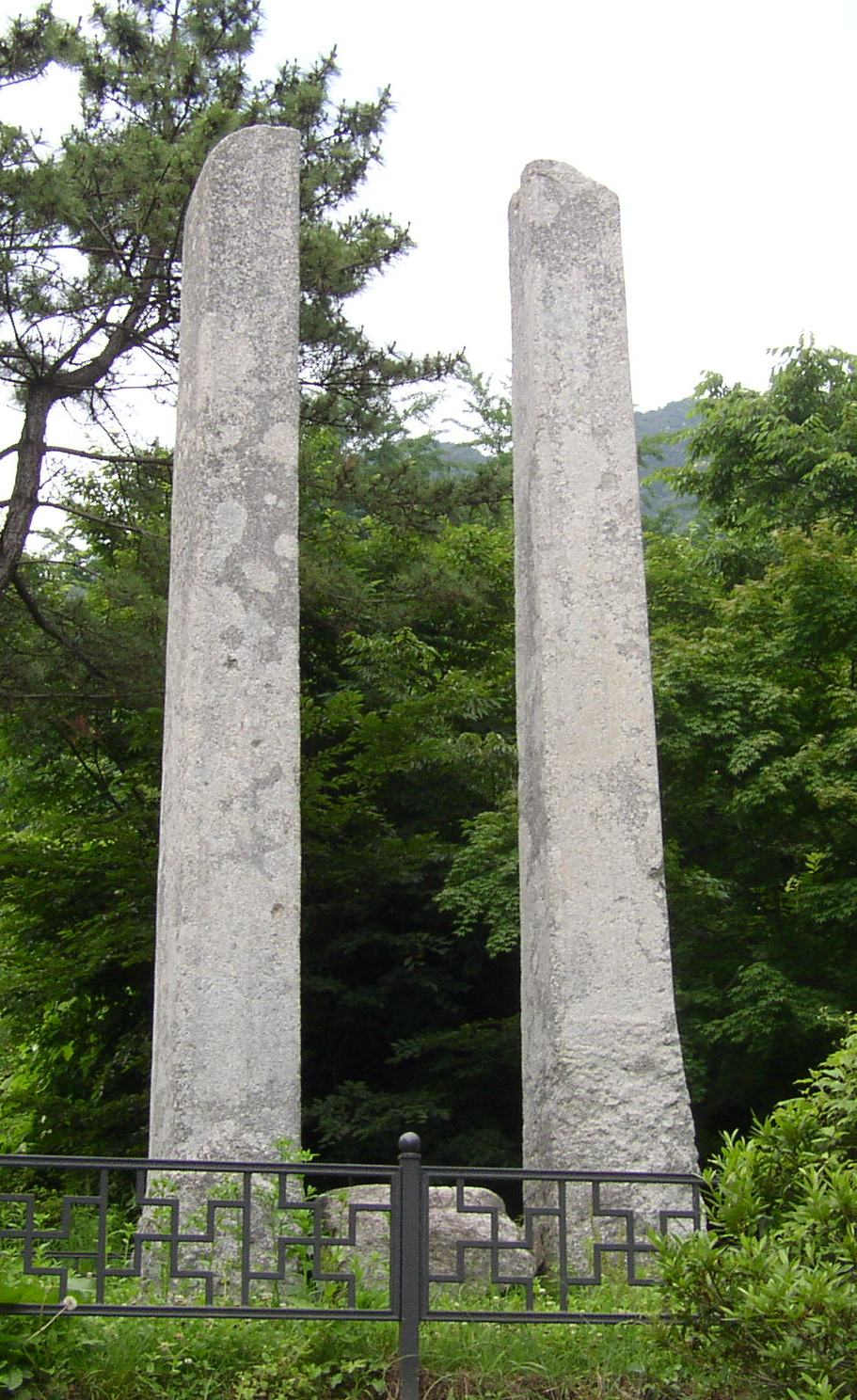 Dangganjiju (Flagpole supports) located at the Buseoksa temple, Yeongju city, North Gyeongsang province, South Korea. It is designated as the 255th Treasure of Korea.